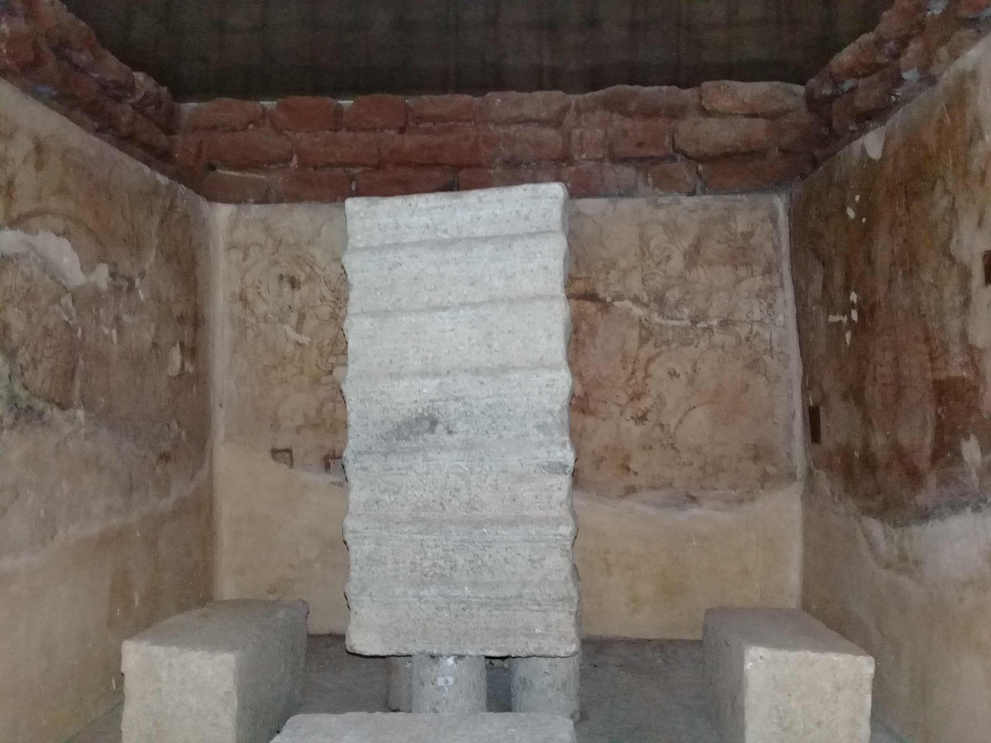 A relic chamber of a small stupa in Mihintale. This relic chamber consists of frescoes belonging to Anuradhapura era. This is now housed at Archaeological Museum, Mihintale.